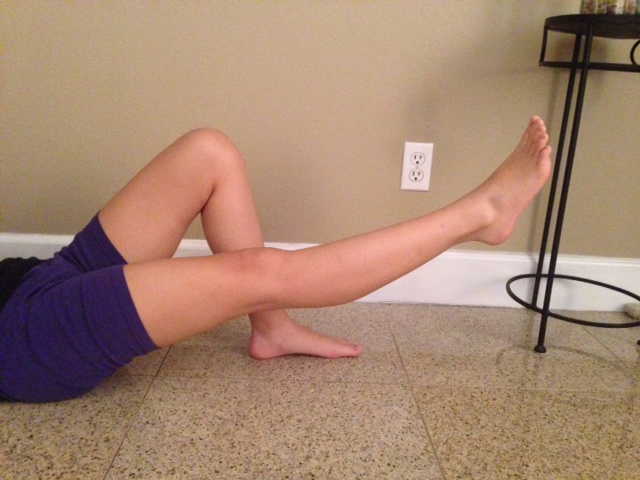 Straight leg raises help to partially strengthen the quadriceps without the need to bend the knee. This mostly works the rectus femoris and iliopsoas (hip flexors). The knee should be kept straight, legs should be lifted and lowered slowly, and reps should be held for three to five seconds.